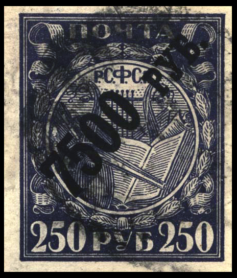 RSFSR stamp, 1922, 7500 r.